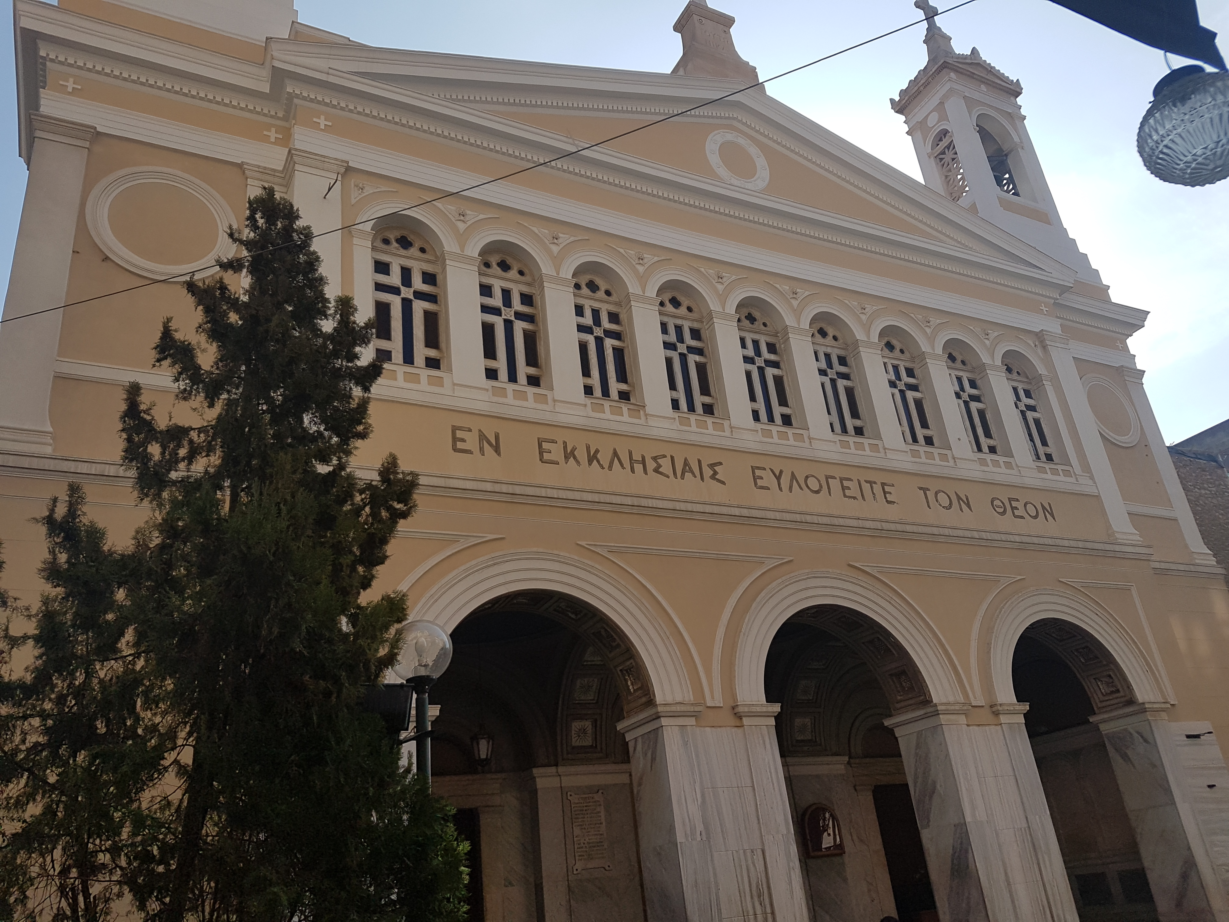 Saint Irene church, 36 Aiolou Str., Athens